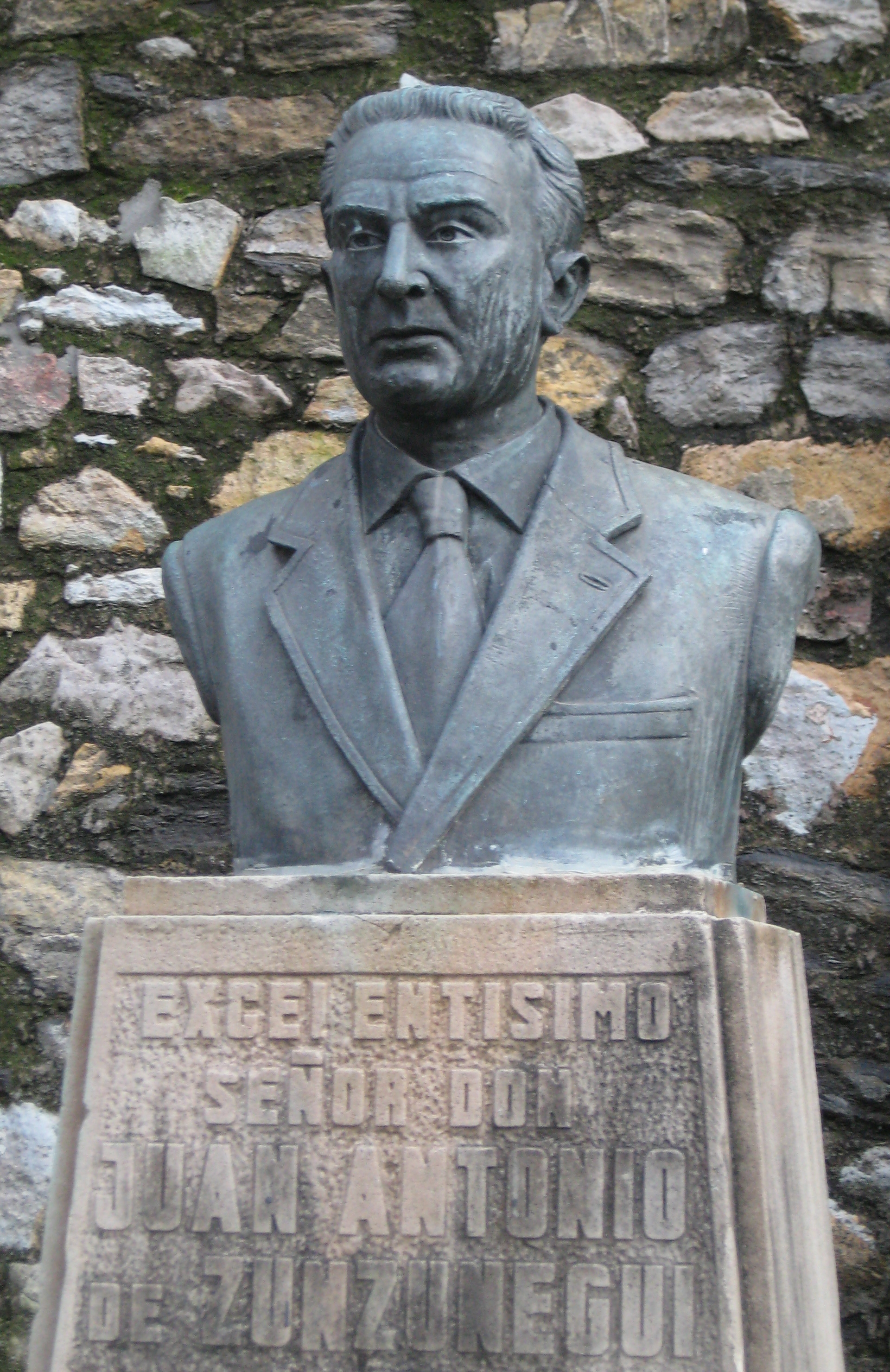 Bust of Jose Antonio de Zunzunegui at his hometwon, Portugalete.